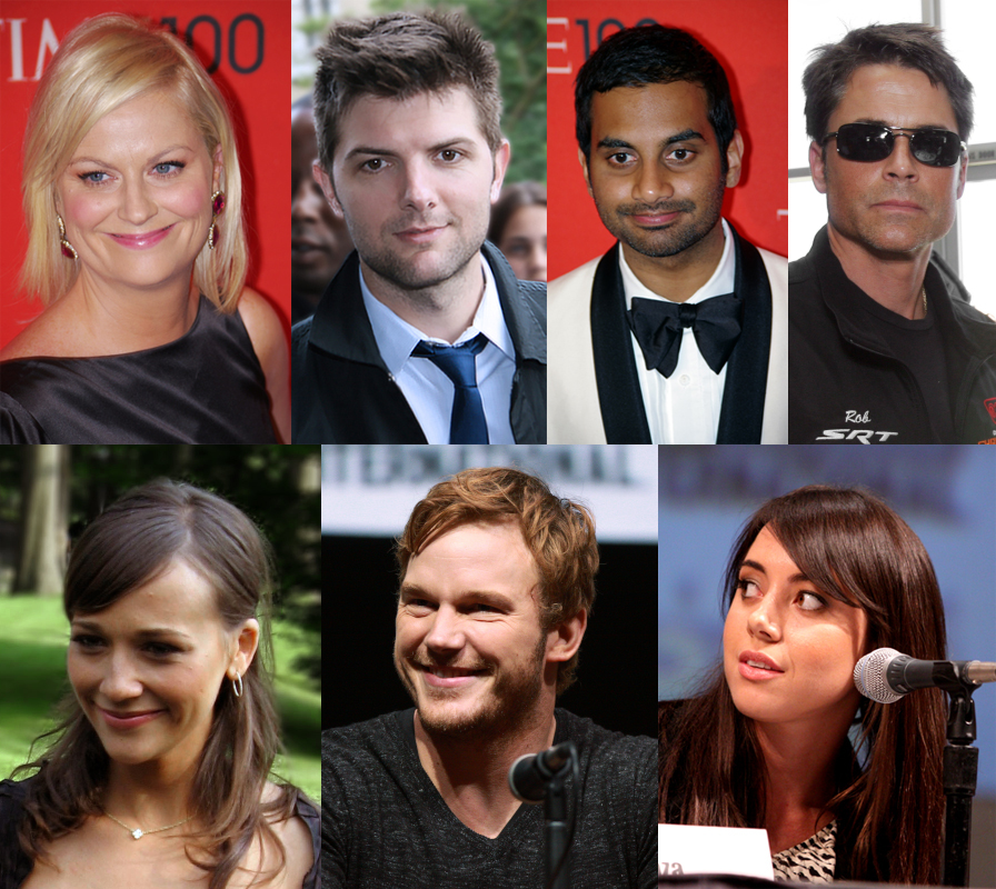 Members of the regular cast of the American comedy television series Parks and Recreation including (left to right, starting with the top row) Amy Poehler, Adam Scott, Aziz Ansari, Rob Lowe, Rashida Jones, Chris Pratt and Aubrey Plaza.